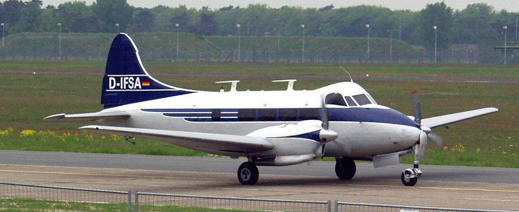 De Havilland Aircraft Company de Havilland Dove (D-IFSA) at Airport Niederrhein.